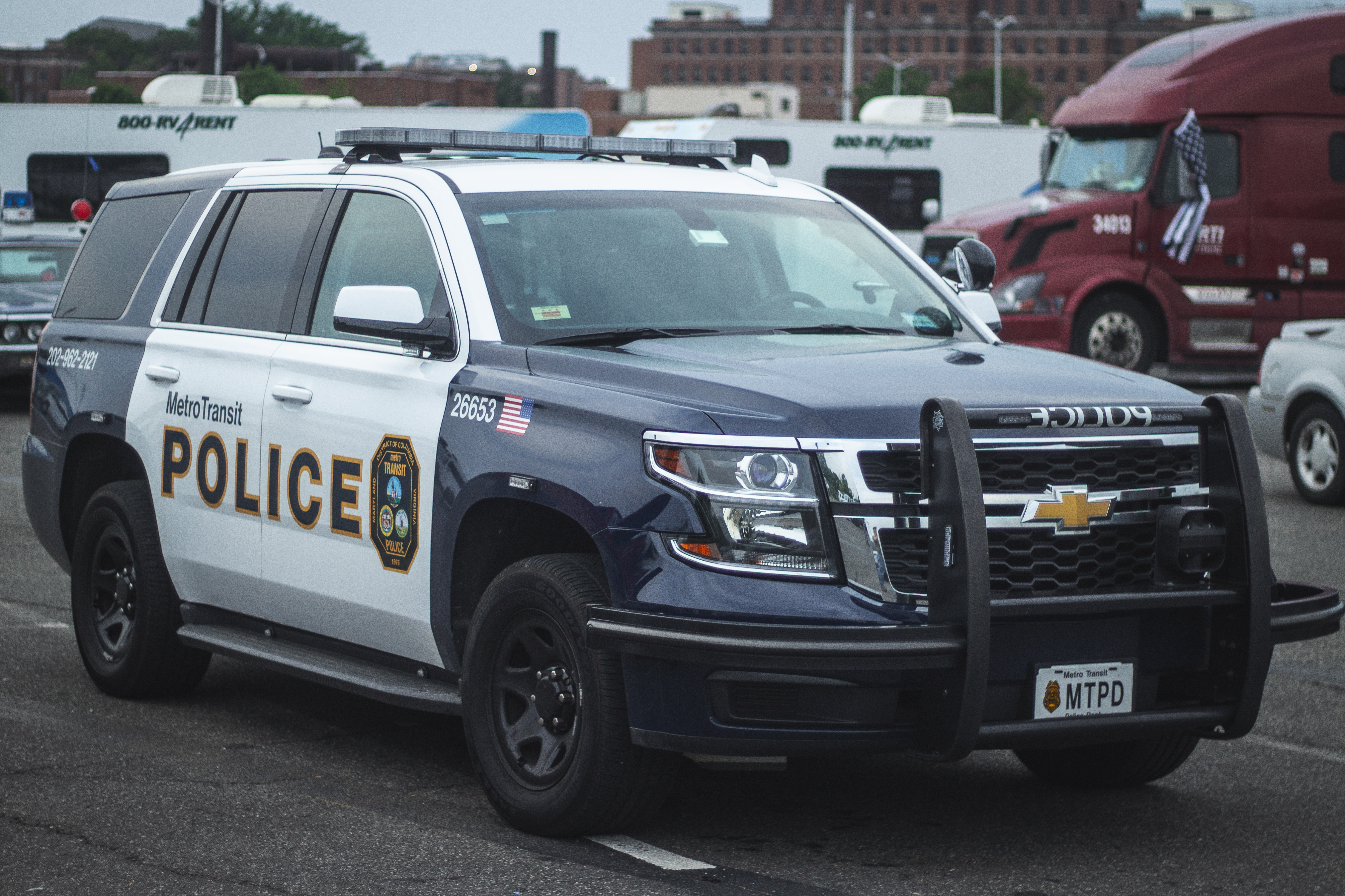 DC MetroTransit Police - Chevrolet Tahoe A Chevrolet Tahoe belonging to the Washington, DC MetroTransit Police Department.